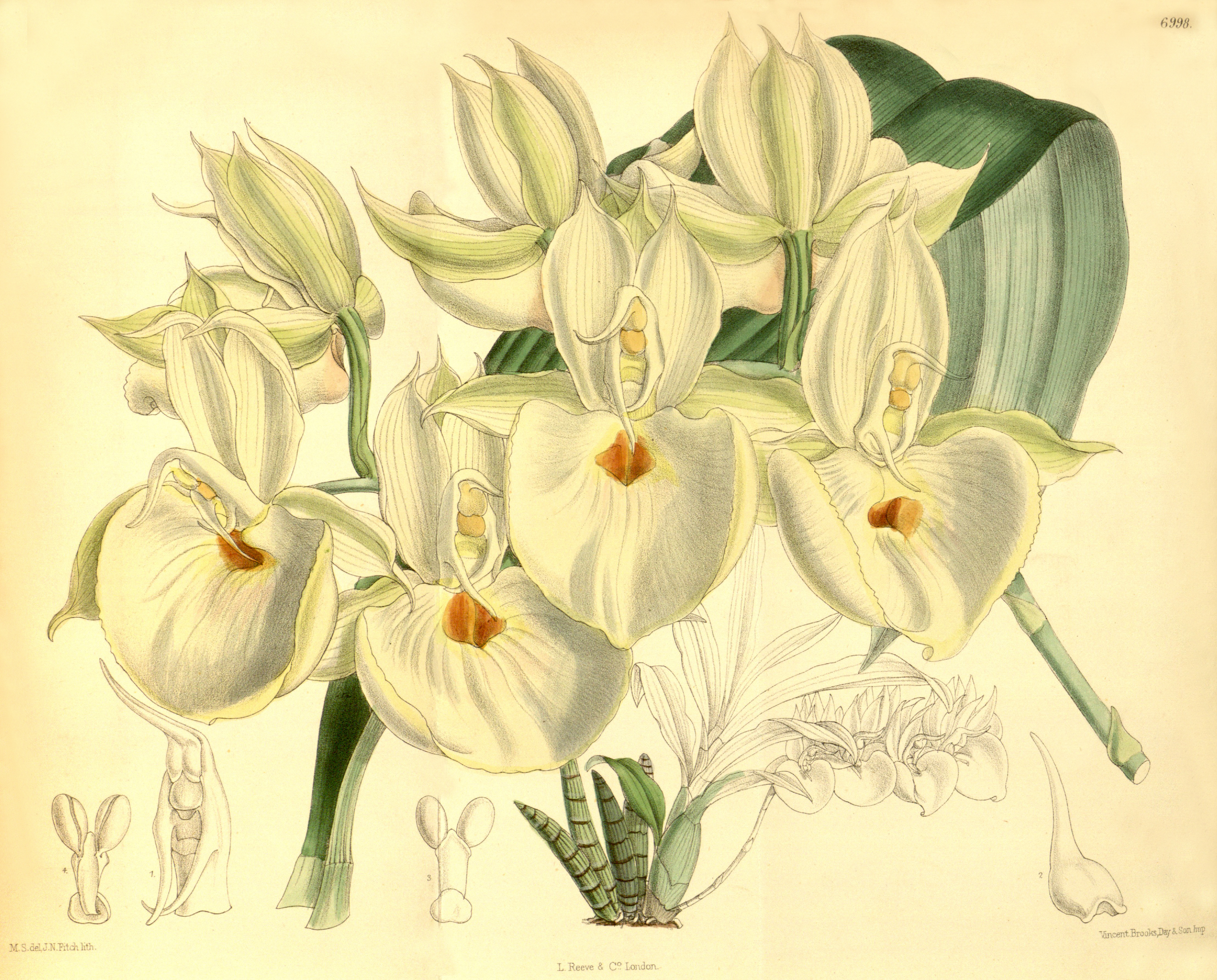 Illustration of Catasetum pileatum (as syn. Catasetum bungerothii, spelled by Hooker as Catasetum bungerothi)